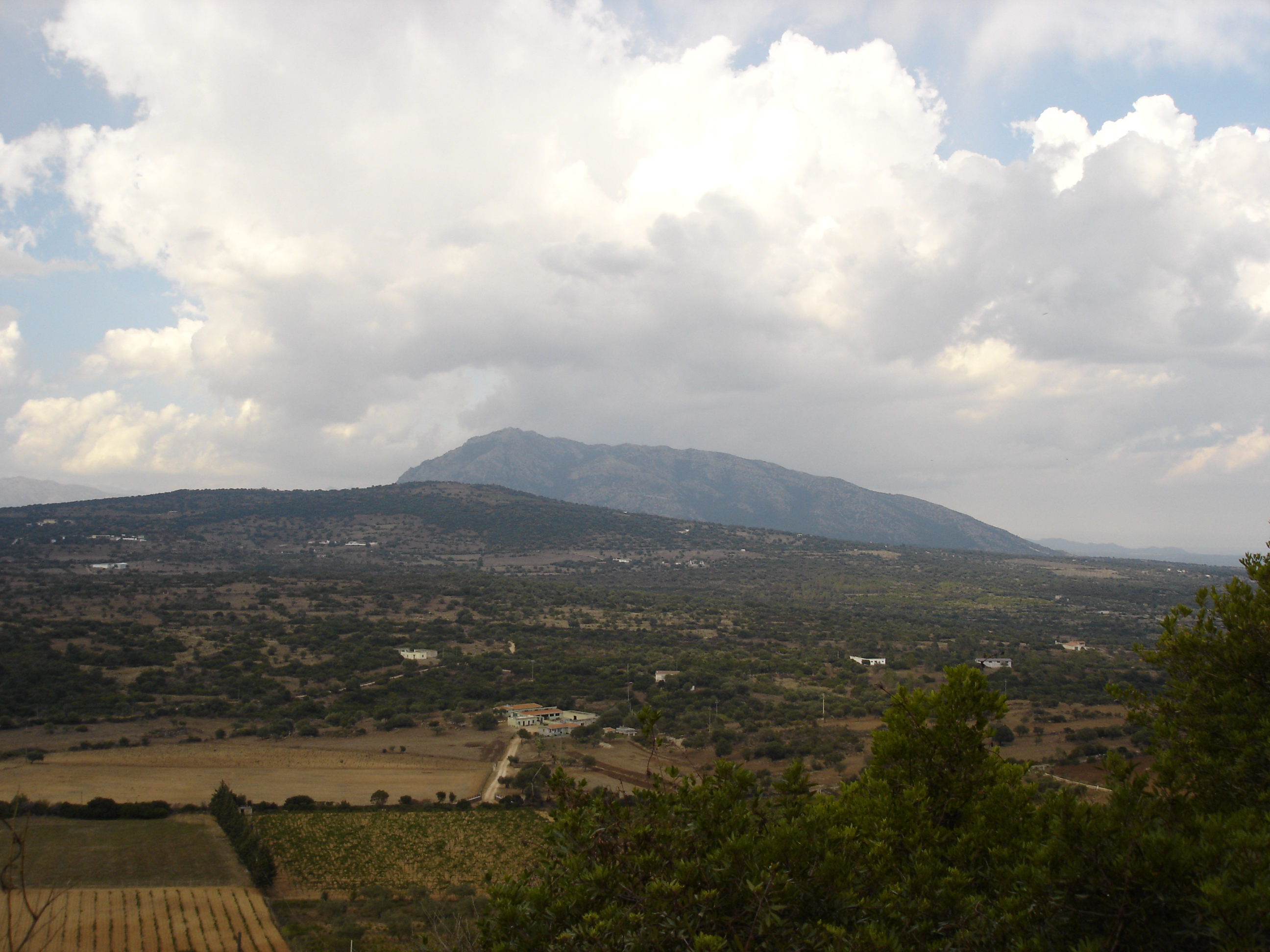 wine country